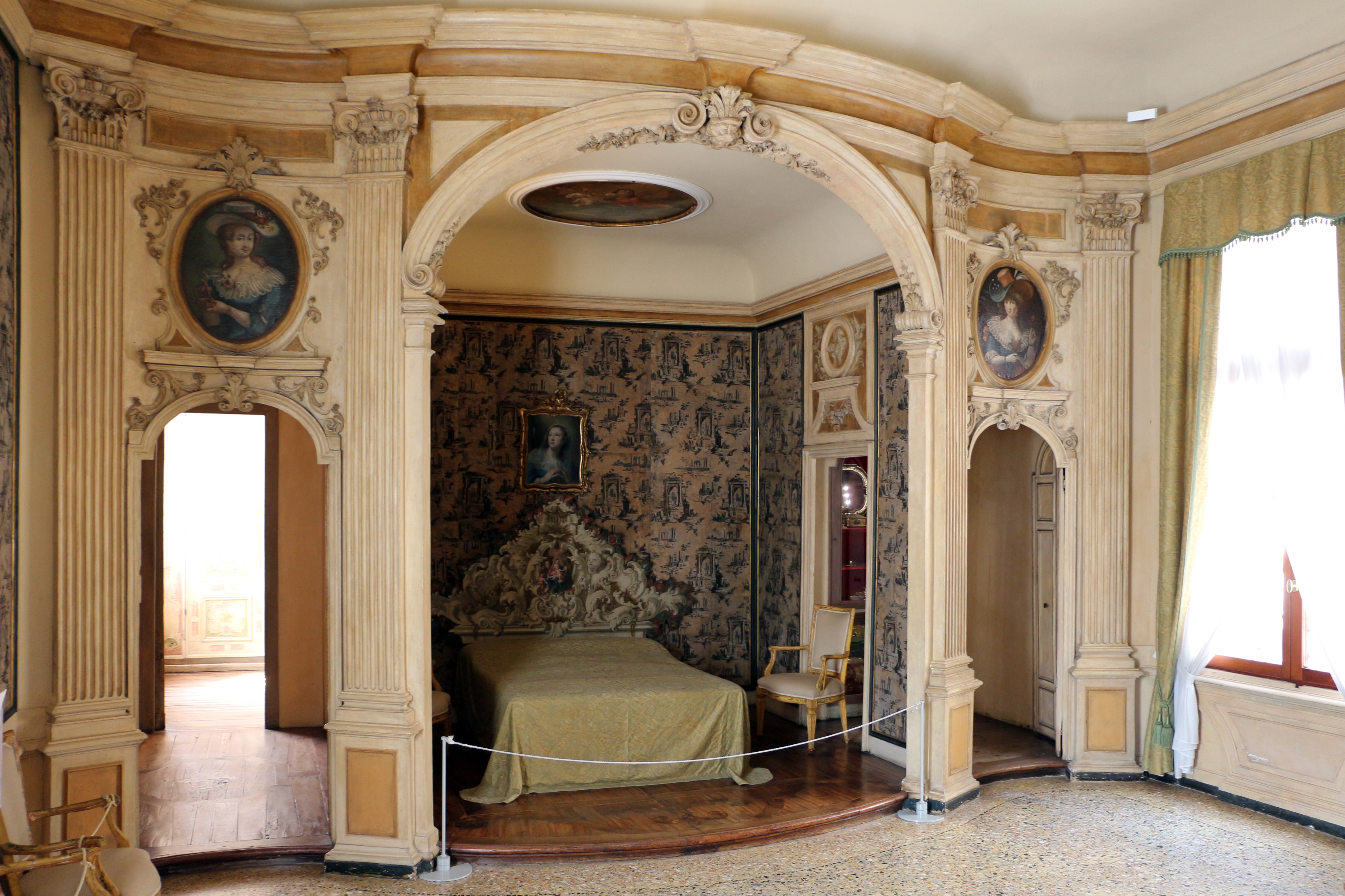 Ca' Rezzonico (Venice) - Interior